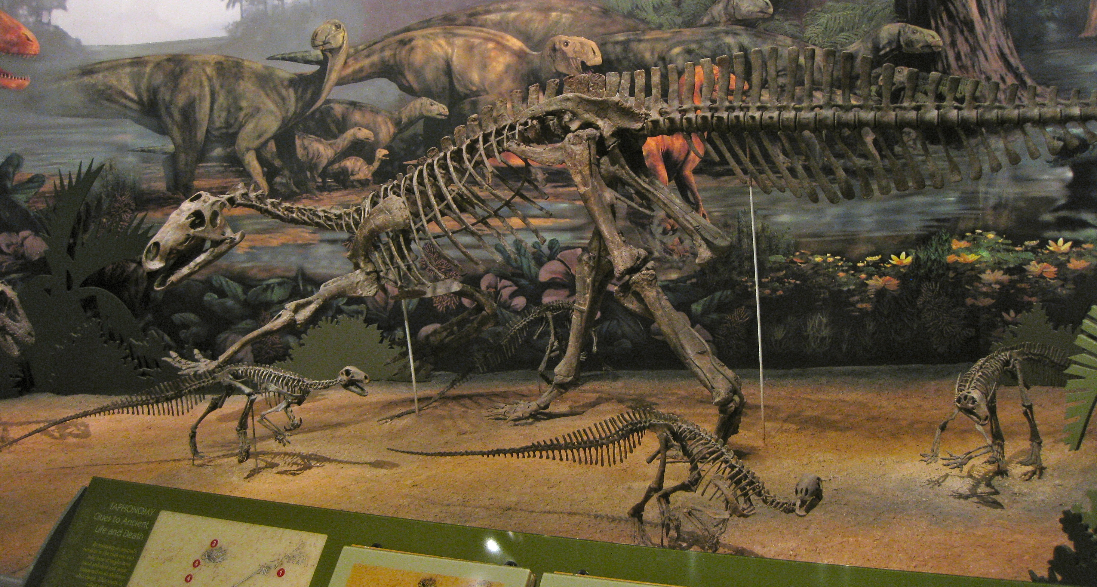 Display at the Sam Noble Oklahoma Museum of Natural History, Norman, Oklahoma